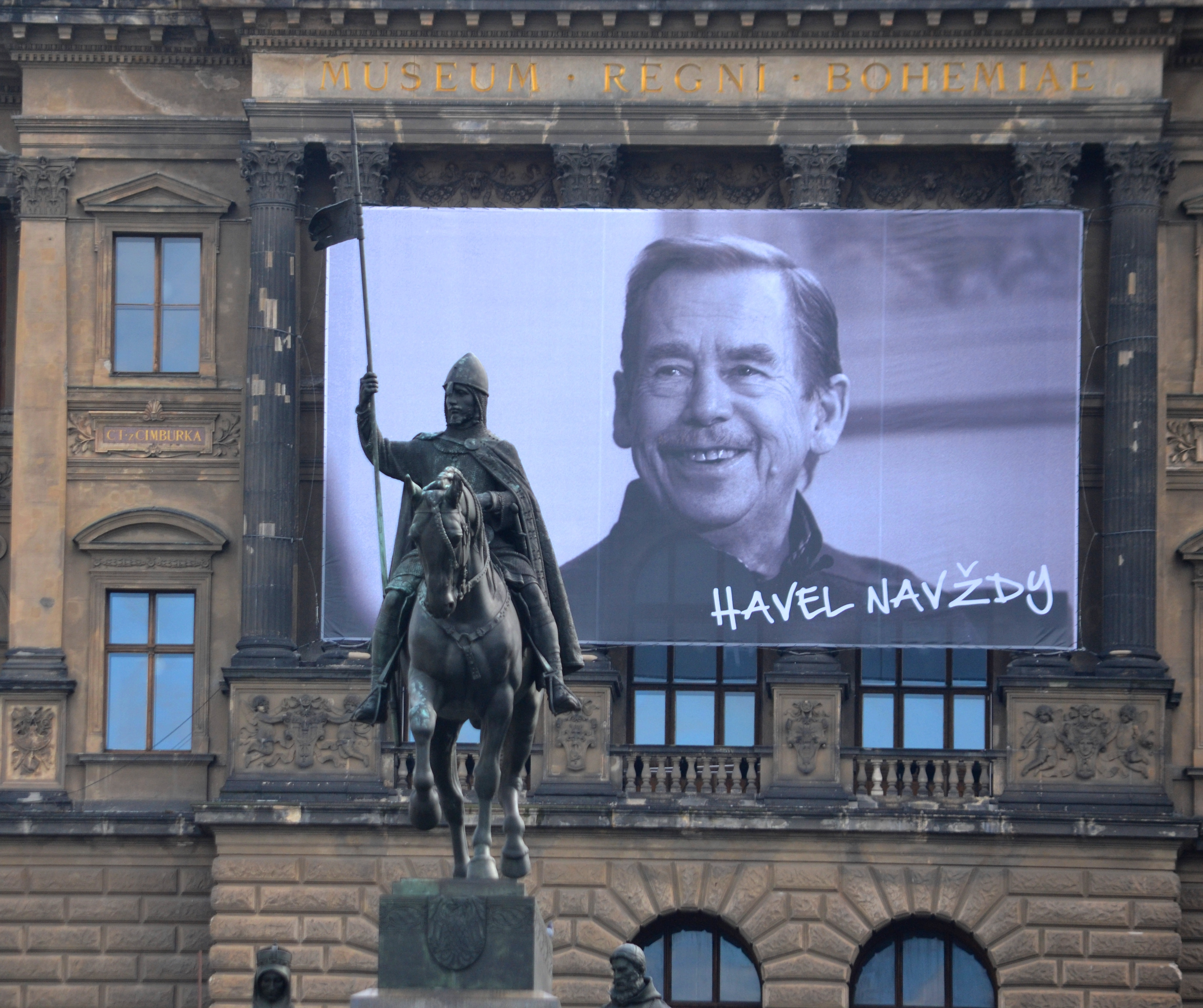 Picture of President Václav Havel with words "Havel forever" located on National Museum building at Wenceslas Square in Prague